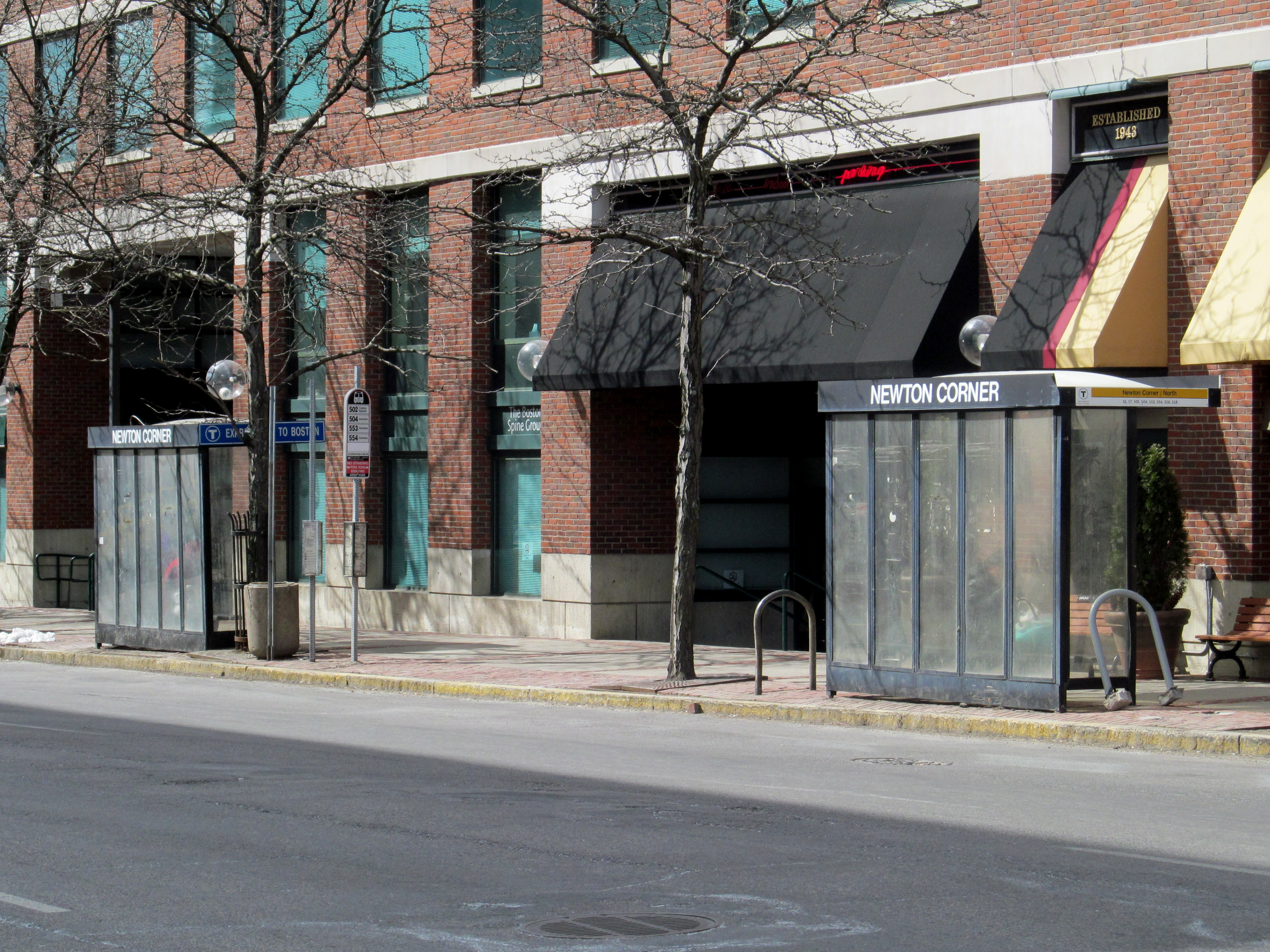 The north side bus stop at Newton Corner, serving the 52, 57, 502, 504, 553, 554, 556, and 558 routes, in March 2013